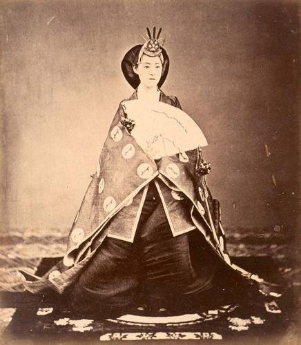 Portrait of Empress Consort Haruko (posthumously known as Empress Shoken, consort of Meiji, Emperor of Japan, 1872.Uchida Kuichi was the only photographer granted a sitting by the Emperor Meiji and in 1872 Uchida photographed the Emperor and Empress Haruko in full court dress and everyday robes (Kinoshita; Ishii and Iizawa).